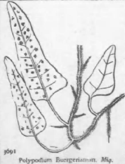 Neocheiropteris subhastata(Polypodium buergeriana)